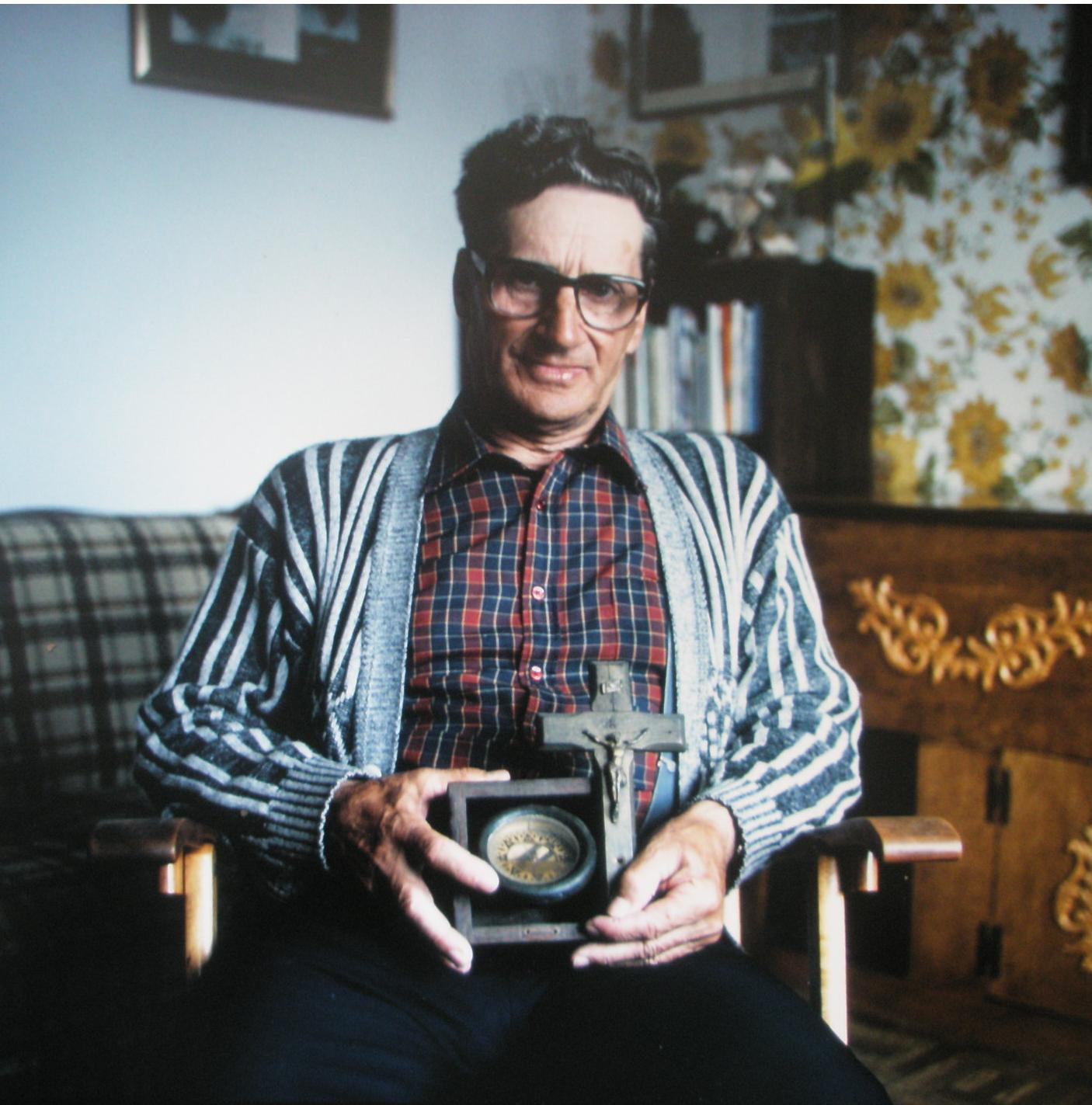 Roland Jomphe, Le Havre St Pierre (Québec) 1990